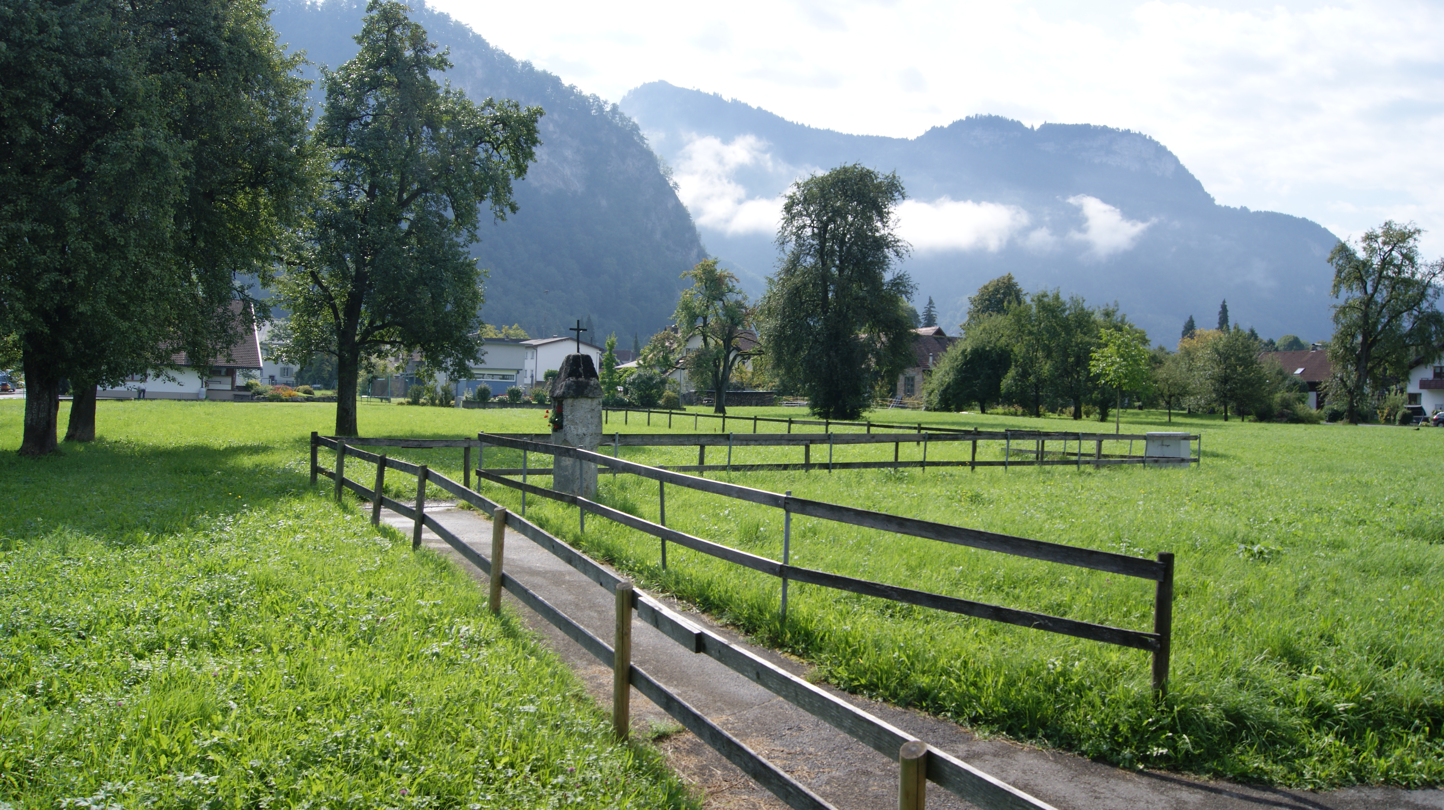 Former place of execution with boom (in the plot "Suendergass" near the "Hatangerweg" in Hohenems, Vorarlberg, Austria. The wayside shrine commemorates the place of execution in Hohenems. View from north-west.